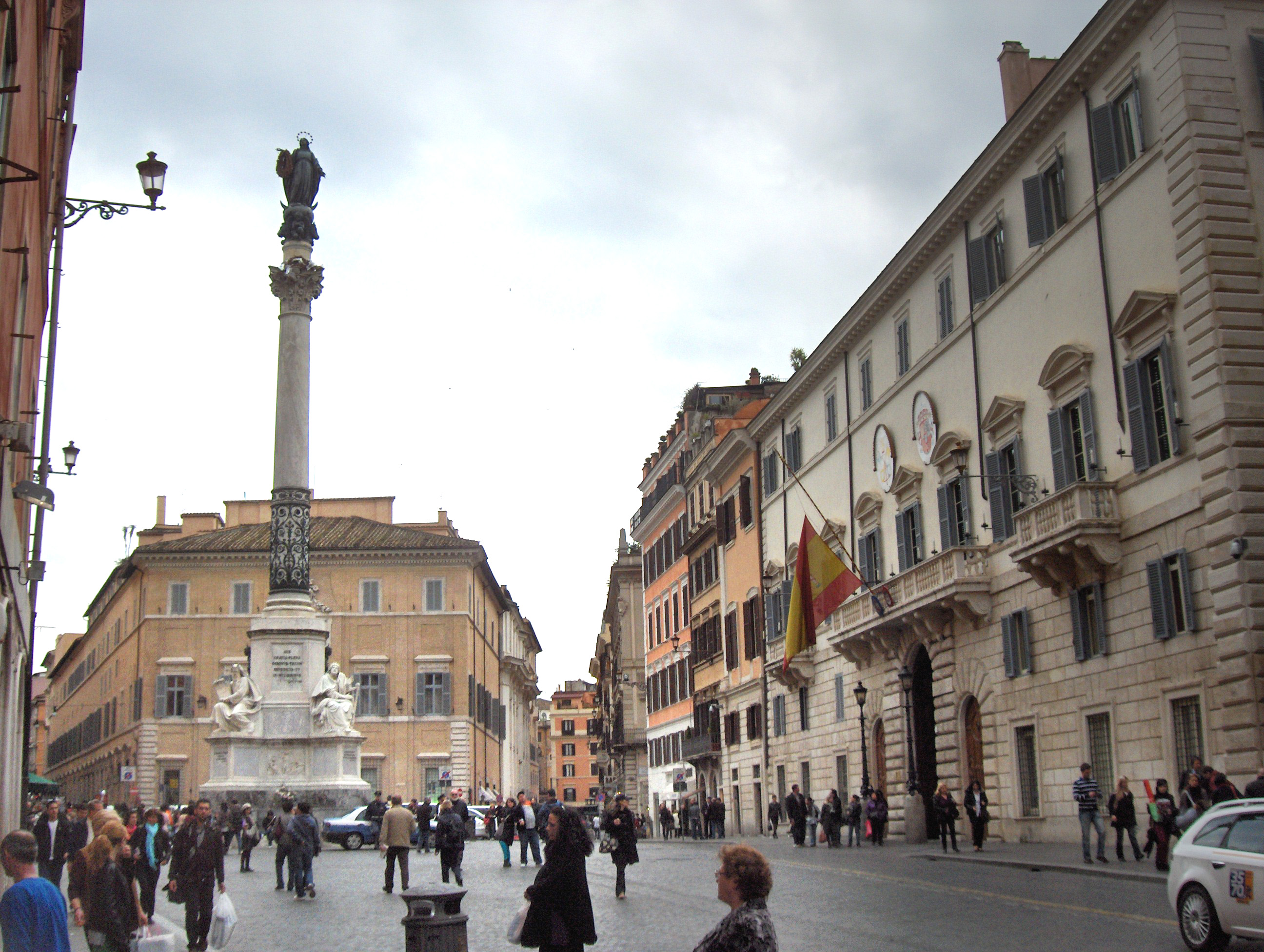 Piazza di Spagna with the Column of the Immacolata and the Spanish Embassy to the Holy See in Rome, Italy